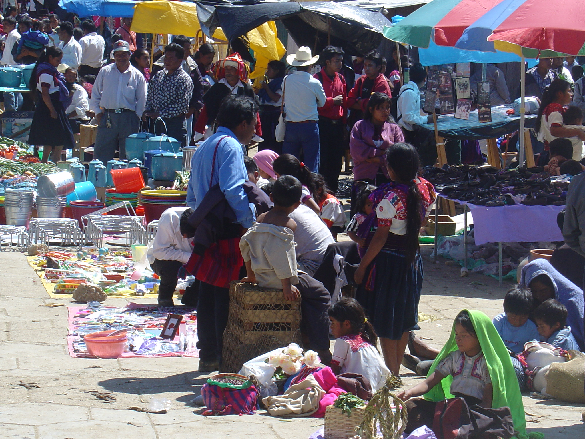 Market day in San Andrés Larraínzar